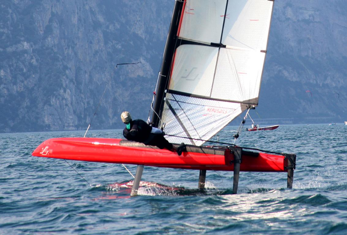 iFLY15 stable foiling due to four T-shaped daggerboards acting as hydrofoils with FlySafe® automatic system